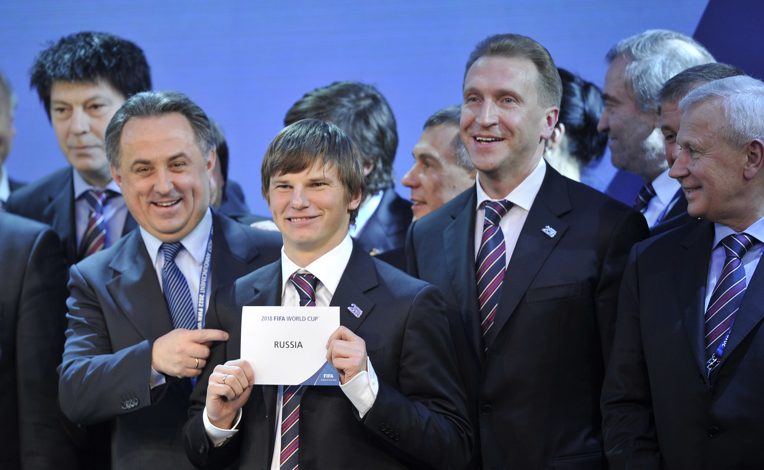 Russian delegates celebrating after winning the right to host the 2018 FIFA World Cup at a FIFA meeting in 2010. From left to right: Vitaly Mutko (Minister of Sport, Tourism and Youth Policy), footballer Andrey Arshavin, Igor Shuvalov (First Deputy Prime Minister), and Vyacheslav Koloskov (honorary president of the Russian Football Union).